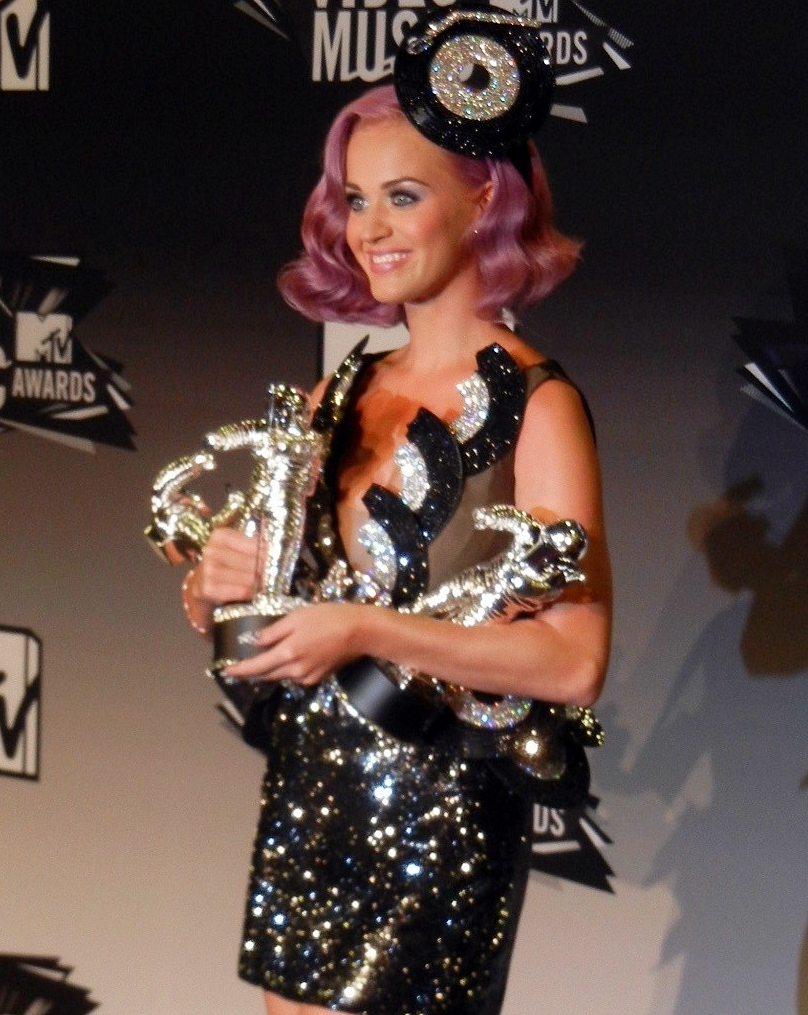 Katy Perry at MTV Video Music Awards 2011.